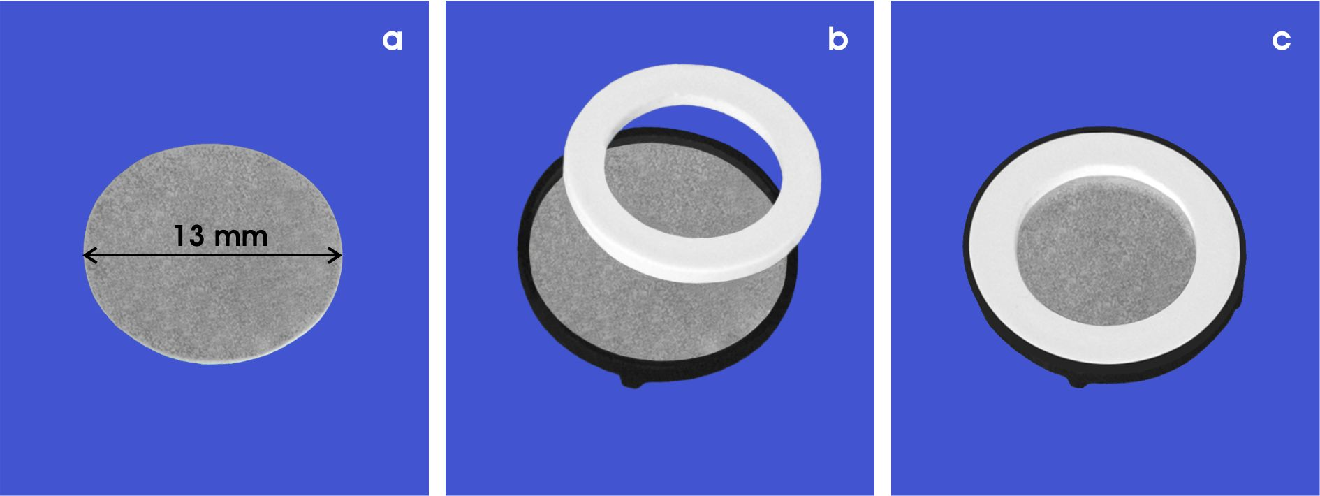 Minusheet